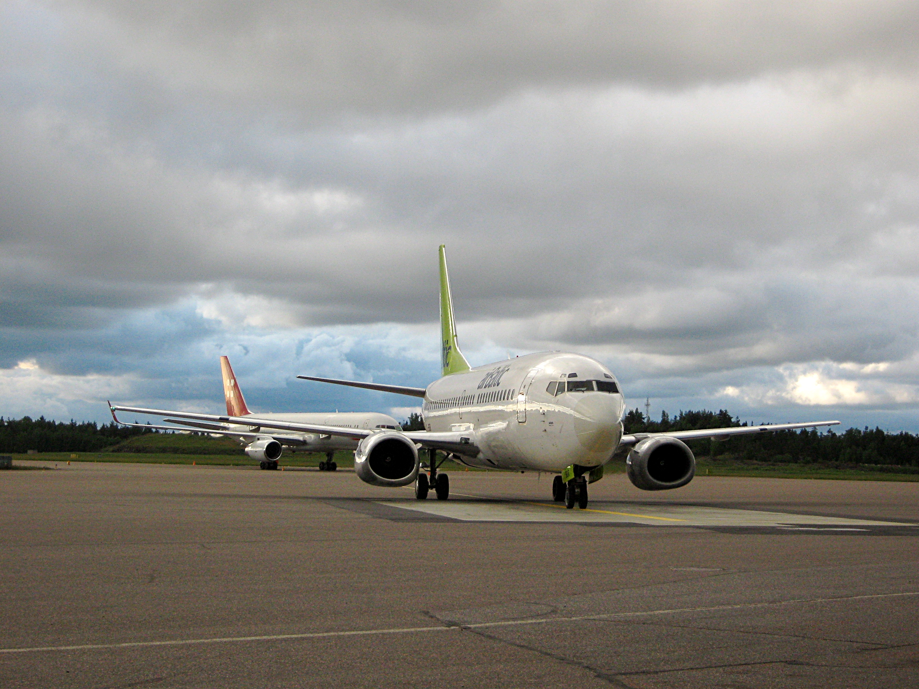 Boeing 737 and Boeing 757 at the international airport of Turku in Finland